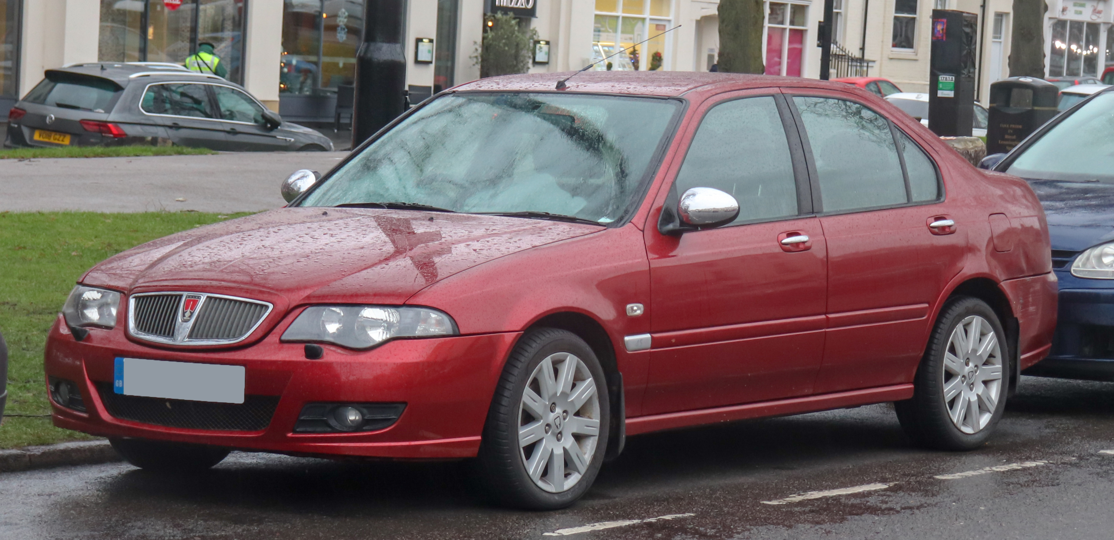 2004 Rover 45 Connoisseur TD 113 2.0 Taken in Leamington Spa